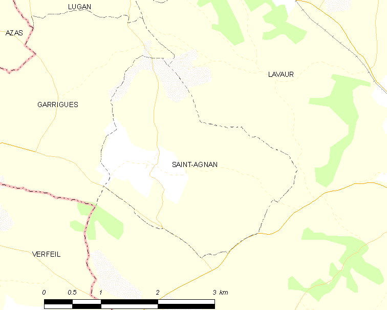 Map of French municipality Saint-Agnan